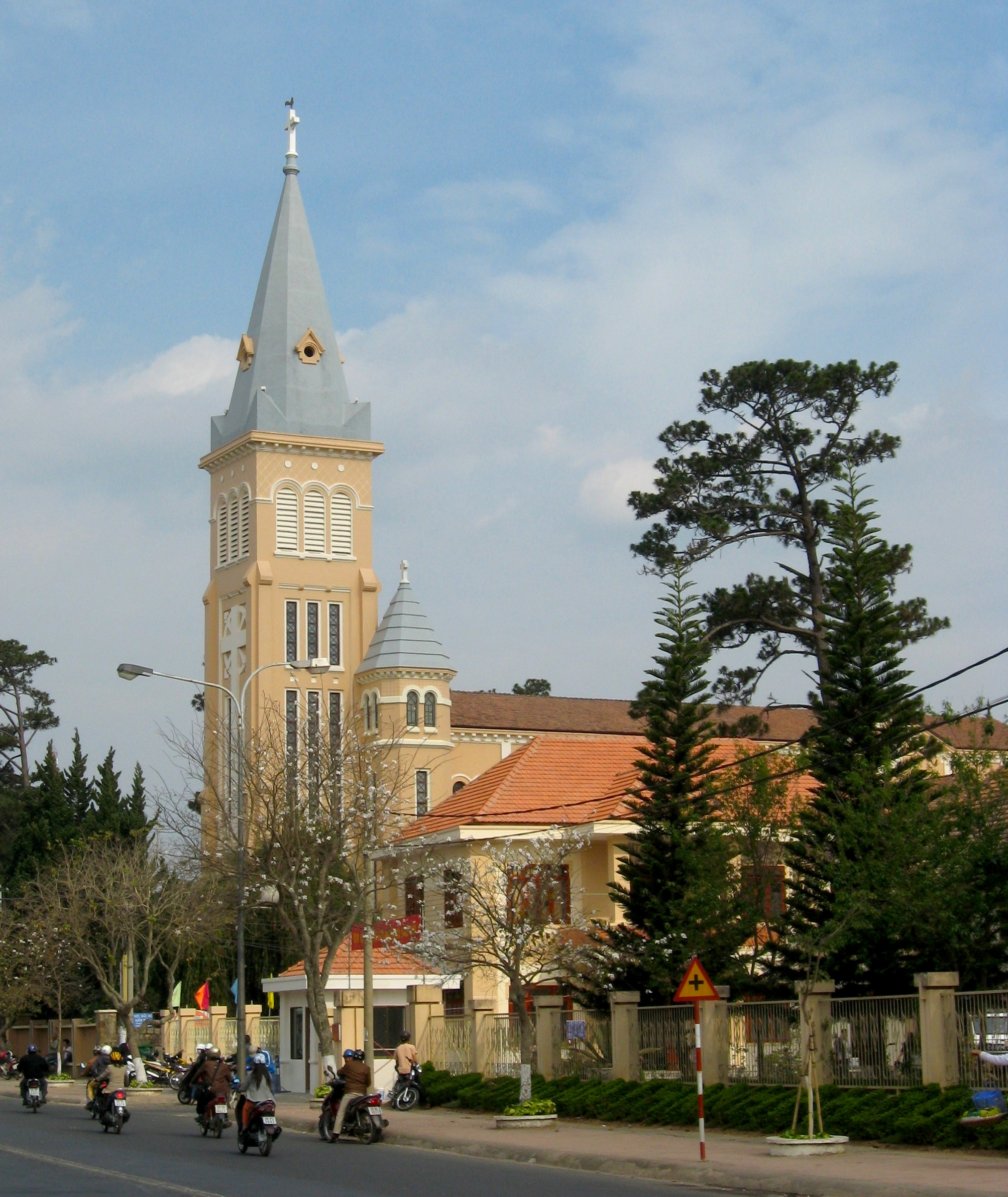 Cathedral of Da Lat